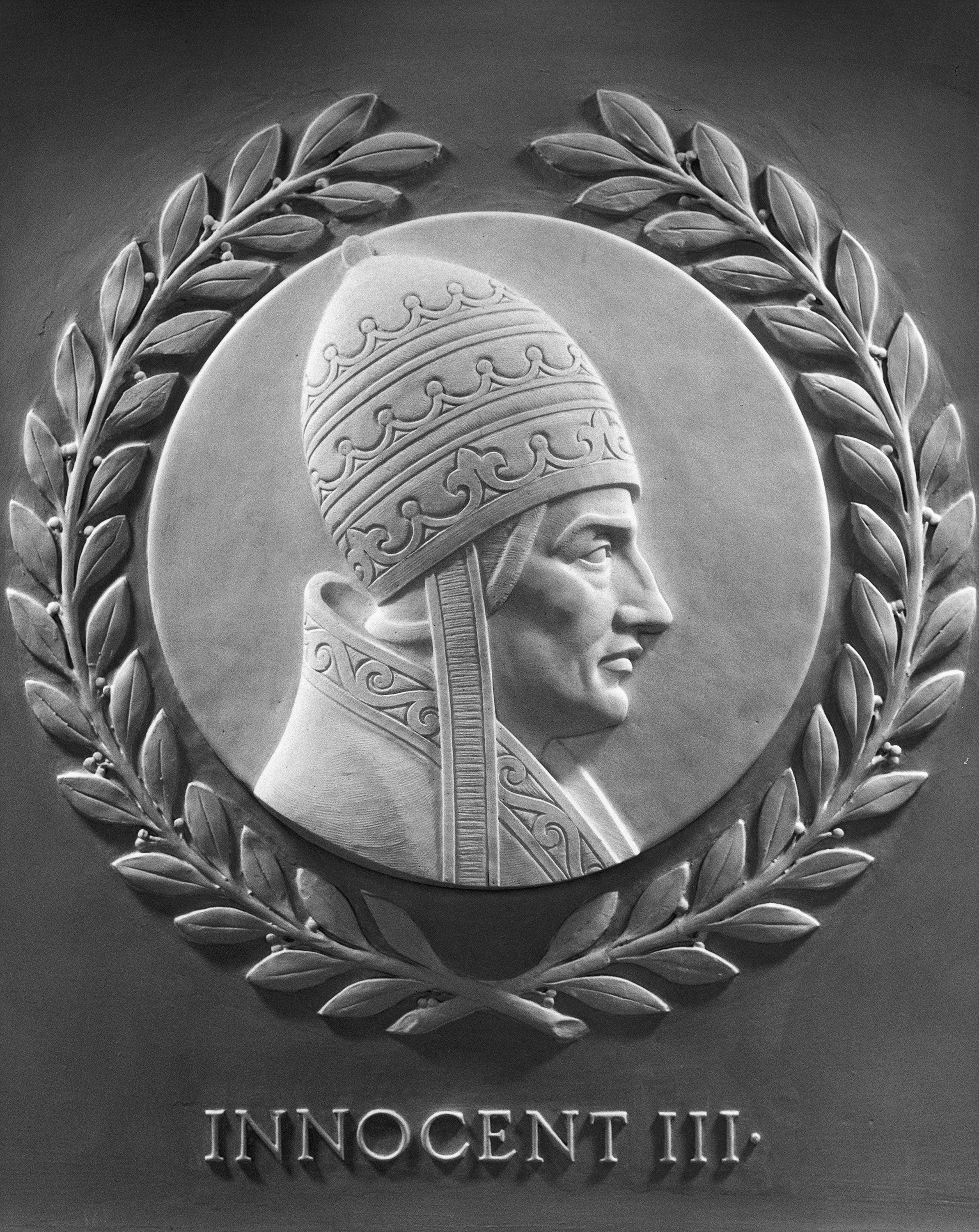 Innocentius III, medieval pope; student of canon and civil law, who, like Gregory IX, preserved the remnants of Roman law during the Dark Ages. Joseph Kiselewski Marble, 28" dia. 1950 House of Representatives Chamber This official Architect of the Capitol photograph is being made available for educational, scholarly, news or personal purposes (not advertising or any other commercial use). When any of these images is used the photographic credit line should read “Architect of the Capitol.” These images may not be used in any way that would imply endorsement by the Architect of the Capitol or the United States Congress of a product, service or point of view. For more information visit